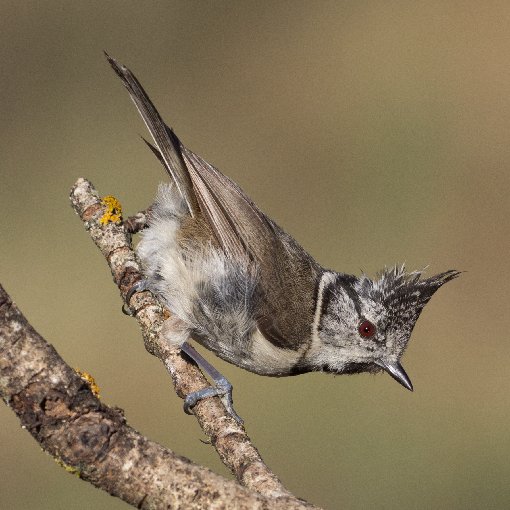 European crested tit (Lophophanes cristatus) in Cantalejo, Castile and León, Spain.